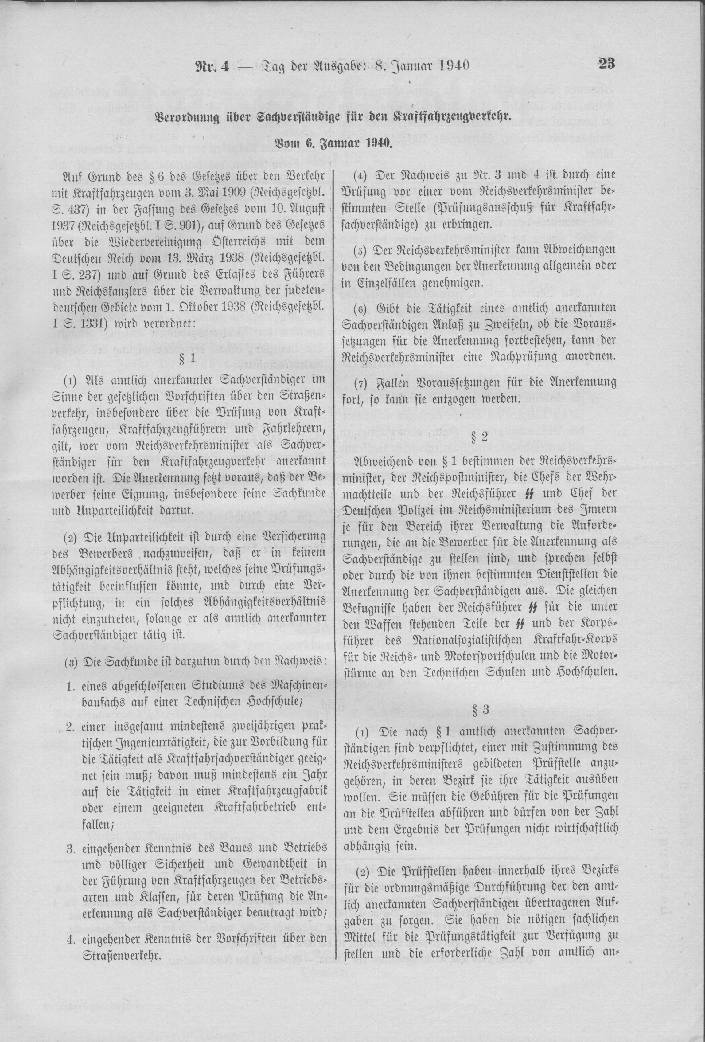 Scan from the Imperial Law Gazette of Germany, 1940, part 1